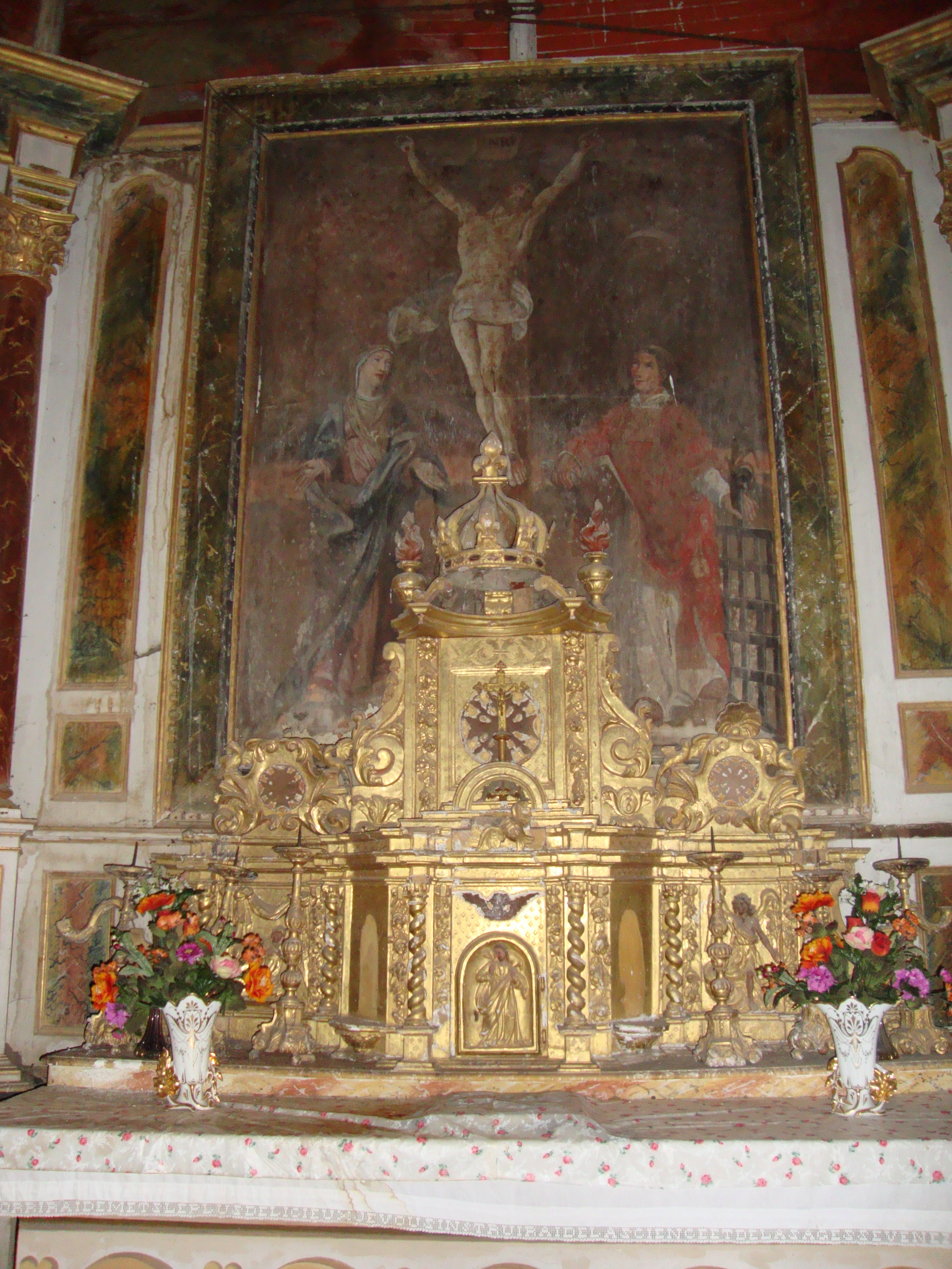 Sérée (Bentayou-Sérée, Pyr-Atl, Fr) church altarpiece needing of restauration